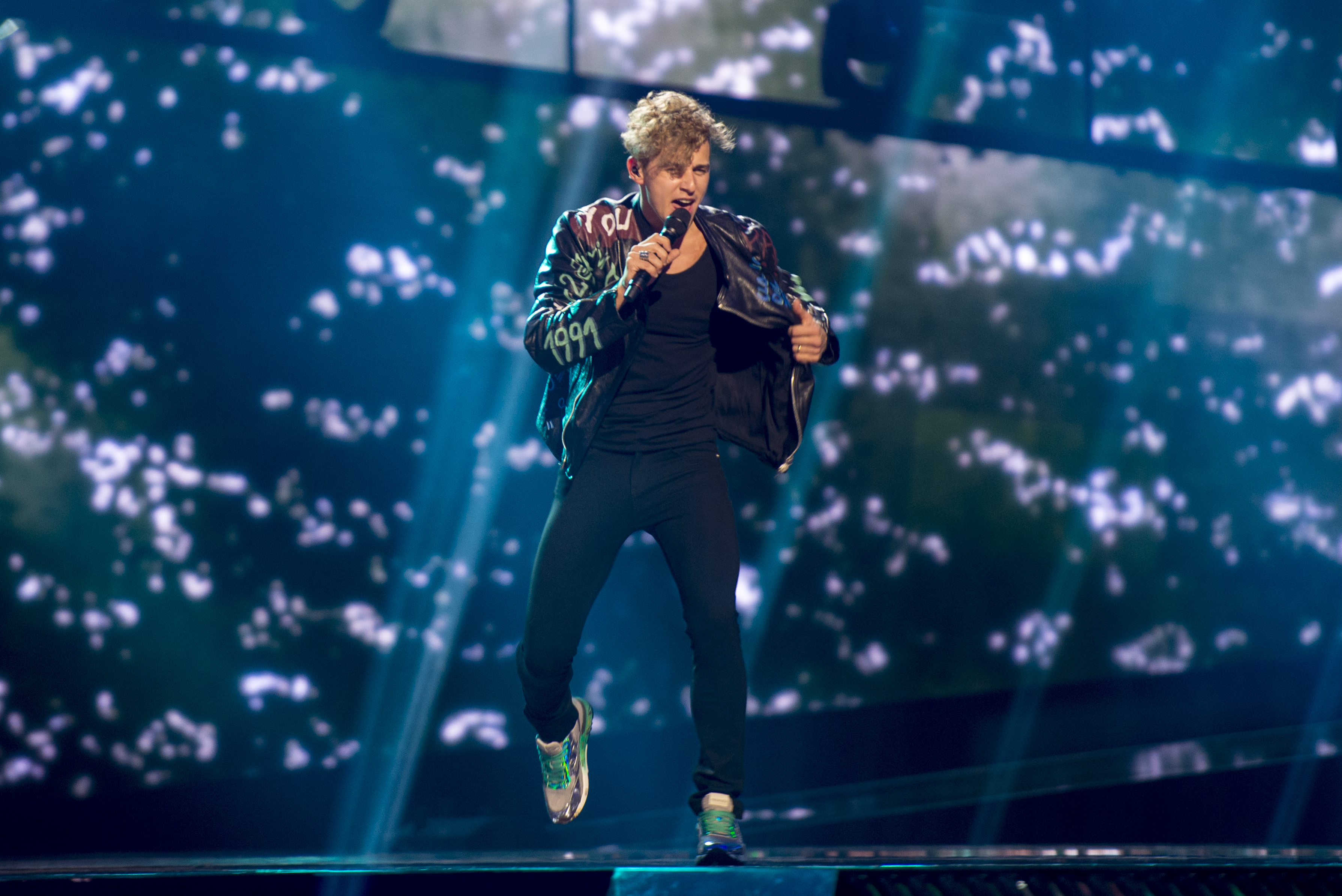 Donny Montell representing Lithuania with the song "I've Been Waiting for This Night" during a rehearsal before the second semi final of the Eurovision Song Contest 2016 in Stockholm. (Help translate this text)